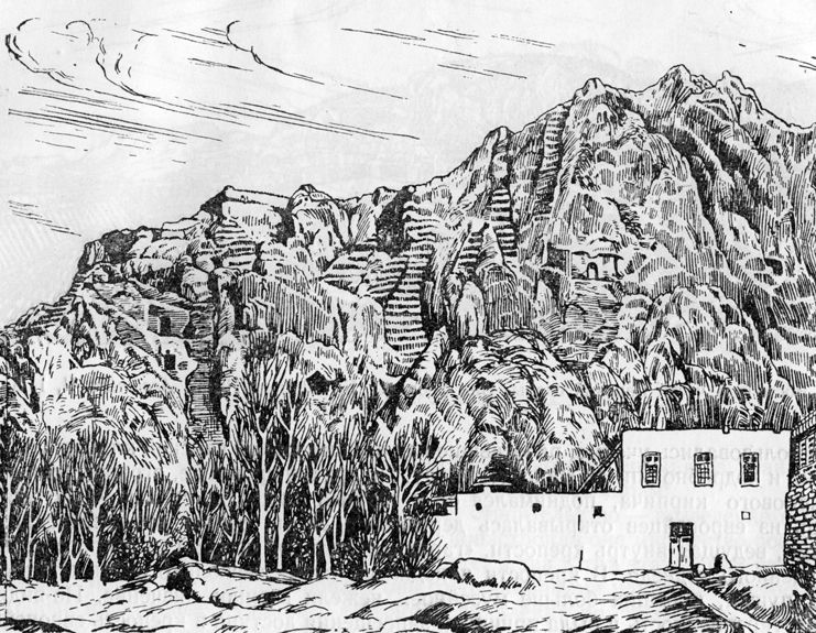 Drawing of Van Cliff made by first researchers of Urartu.